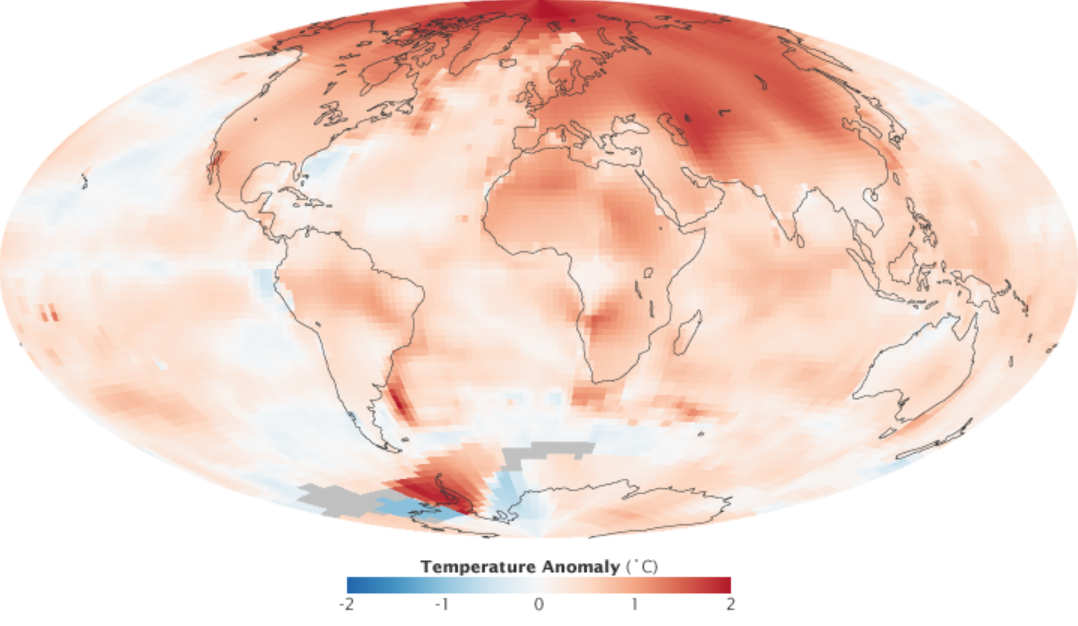 NASA image by Robert Simmon based on GISS surface temperature analysis data including ship and buoy data from the Hadley Centre. Caption by Adam Voiland.